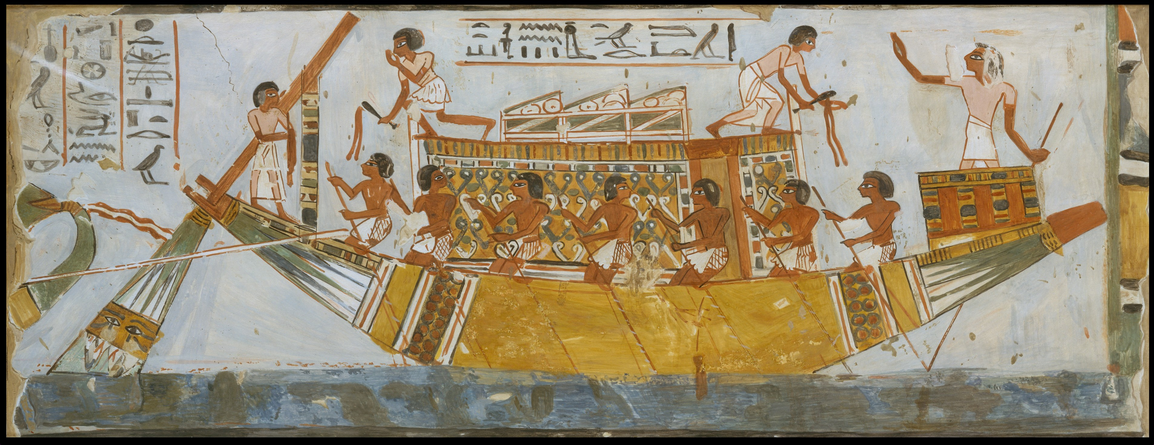 Facsimile, Pairy (TT 139), boat, rowers